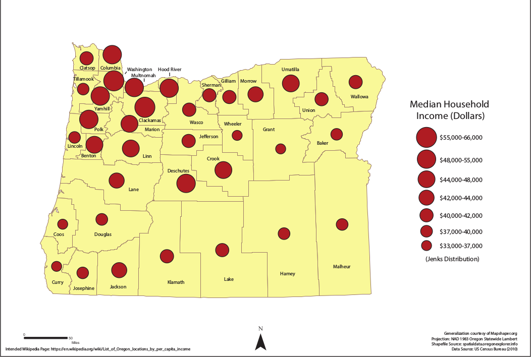 Map of Oregon without title. Includes proportional symbols.